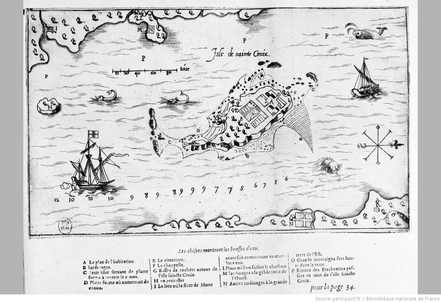 Isle Saint Croix (Ste Croix) as depicted by Samuel de Champlain on his voyage in 1607 (published 1613)